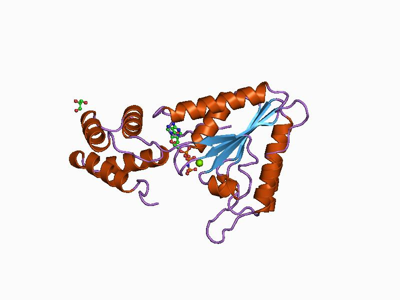 Cartoon representation of the molecular structure of protein registered with 1d2n code.